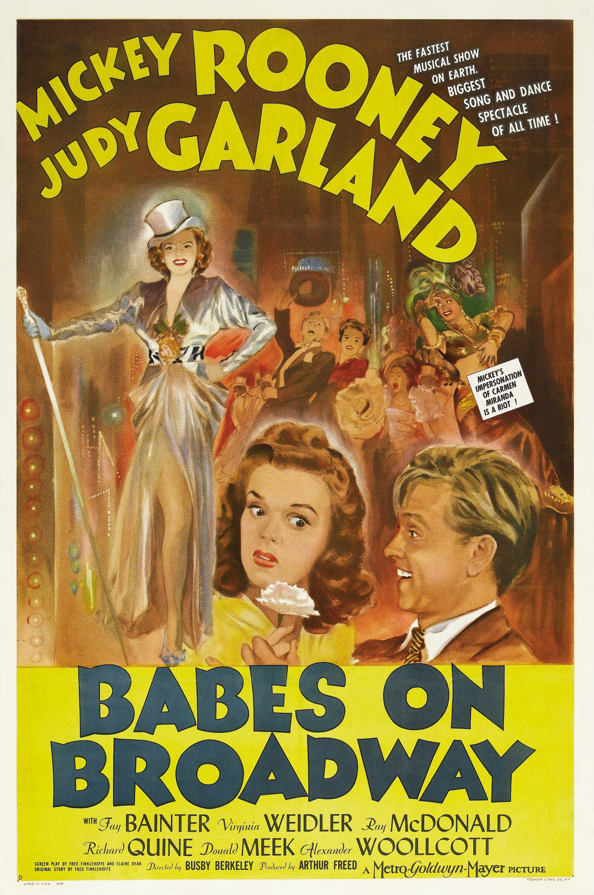 Poster for the American musical film Babes on Broadway (1941). The item has no copyright markings on it as can be seen in the links above. At bottom is "D"-for poster version D, Litho in USA 6764, and Tooker Lith Co., NY--they printed the poster. Poster version "C" is at Commons: File:Babes on Broadway poster.jpg